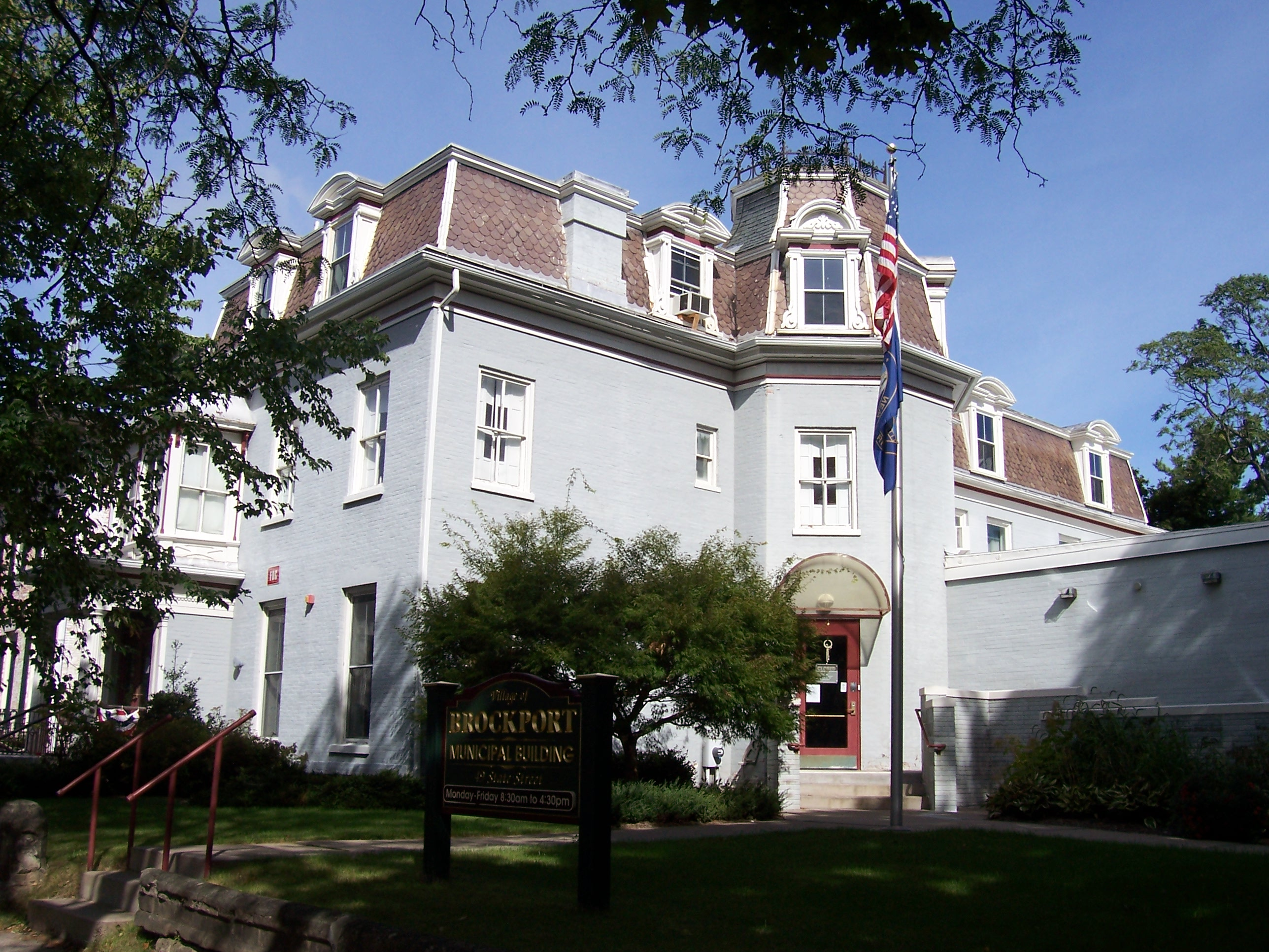 Brockport, New York village hall